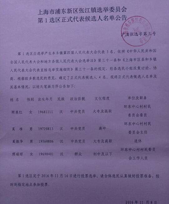 Candidate Announcement